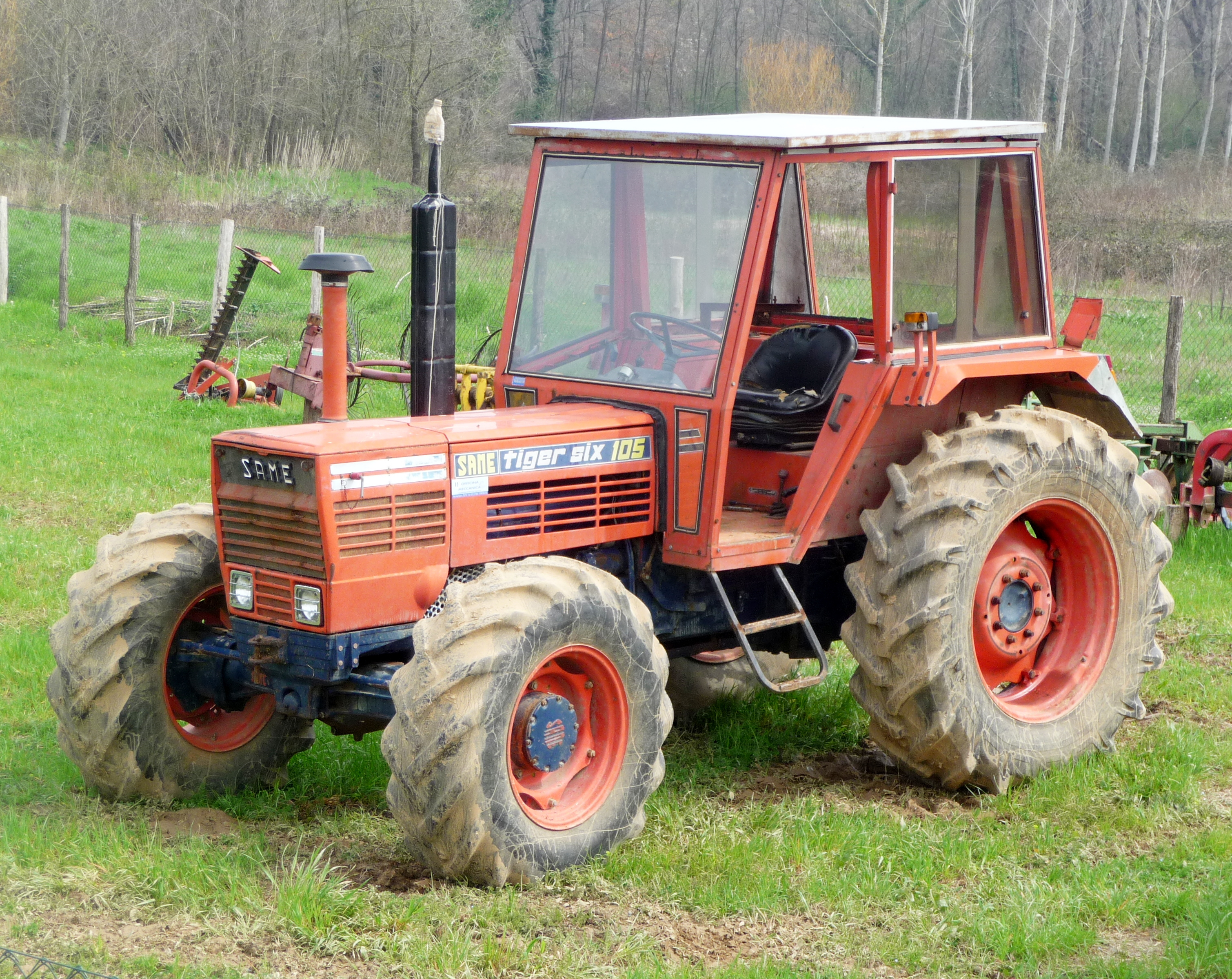 SAME Tiger Six 105 tractor